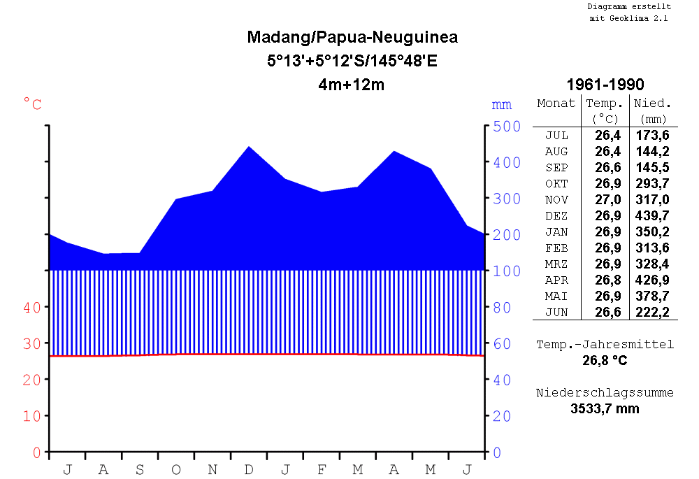 climate chart of Madang, Papua New Guinea, for the period of time from 1961 to 1990, in the format by Walter and Lieth, metric, °Celsius and millimeters, chart made with Geoklima 2.1, label in German